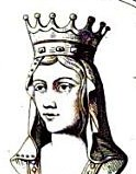 Adelaide of Maurienne